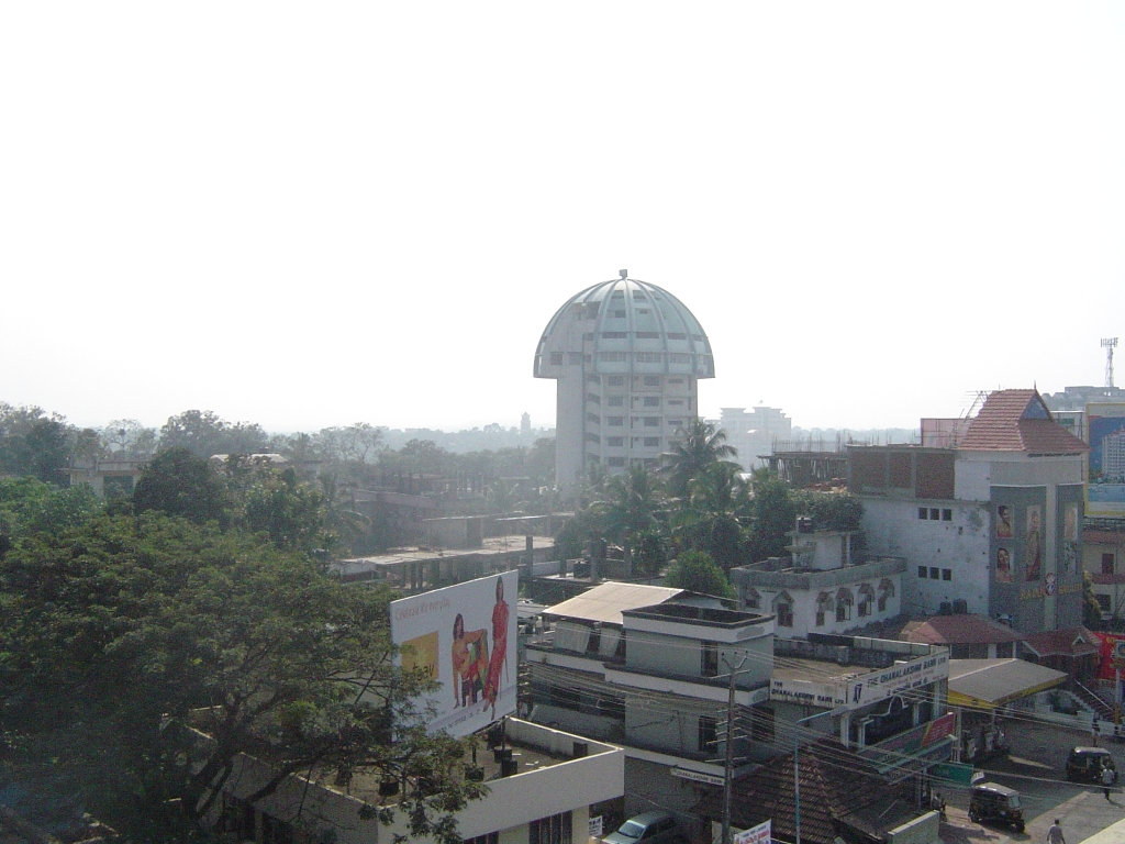 Tiruvalla, Kerala, view from Hotel Elite selfmade by pitichinaccio, 30 Dec 2005